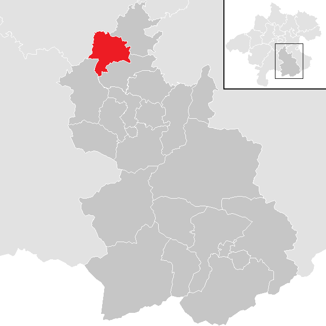 district Kirchdorf an der Krems